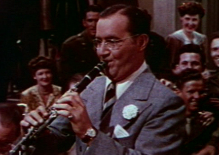 Cropped screenshot of Benny Goodman from the trailer for the film The Gang's All Here